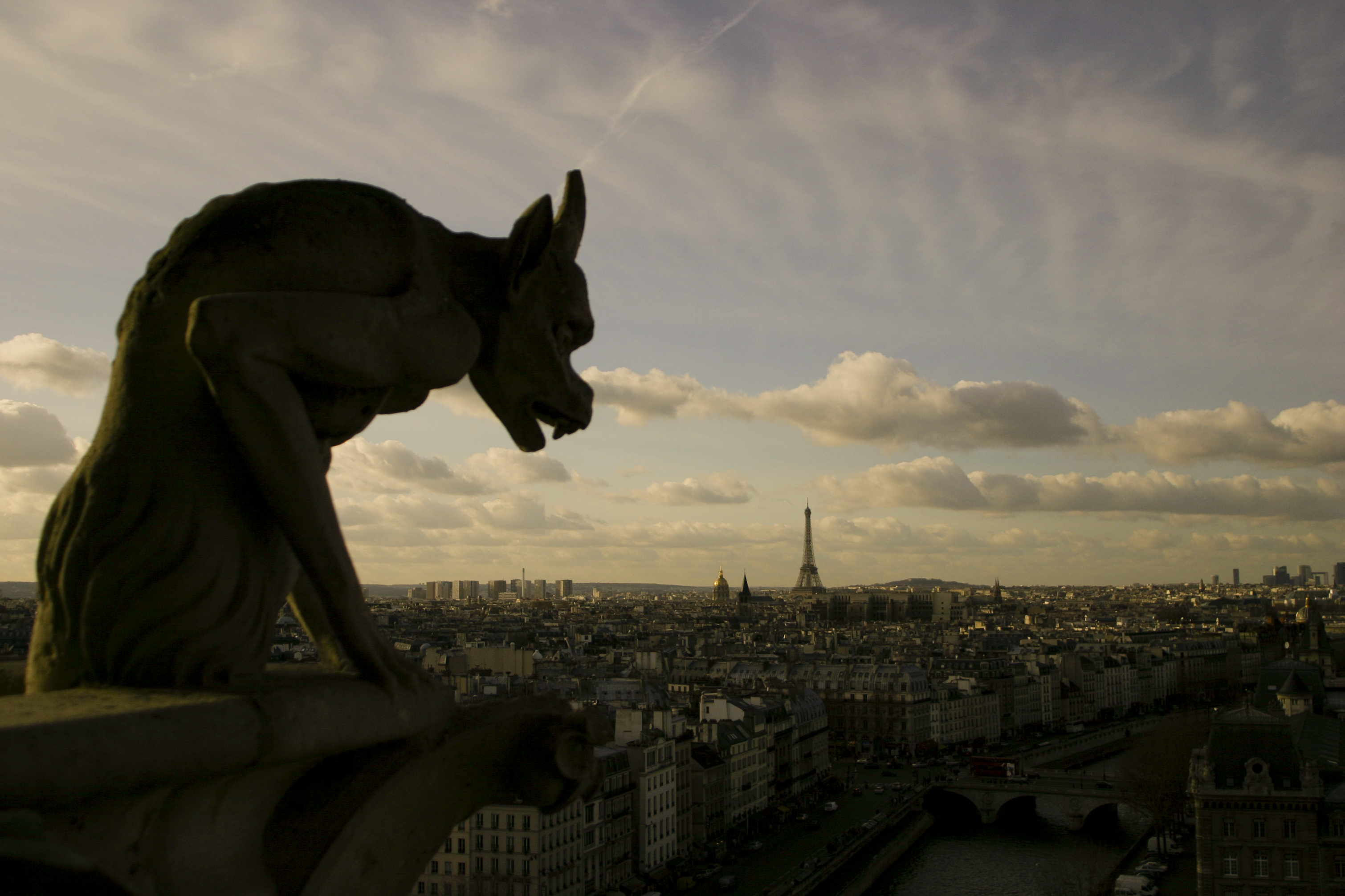 View west over the city of Paris from the Galerie des Chimères of Notre-Dame de Paris.